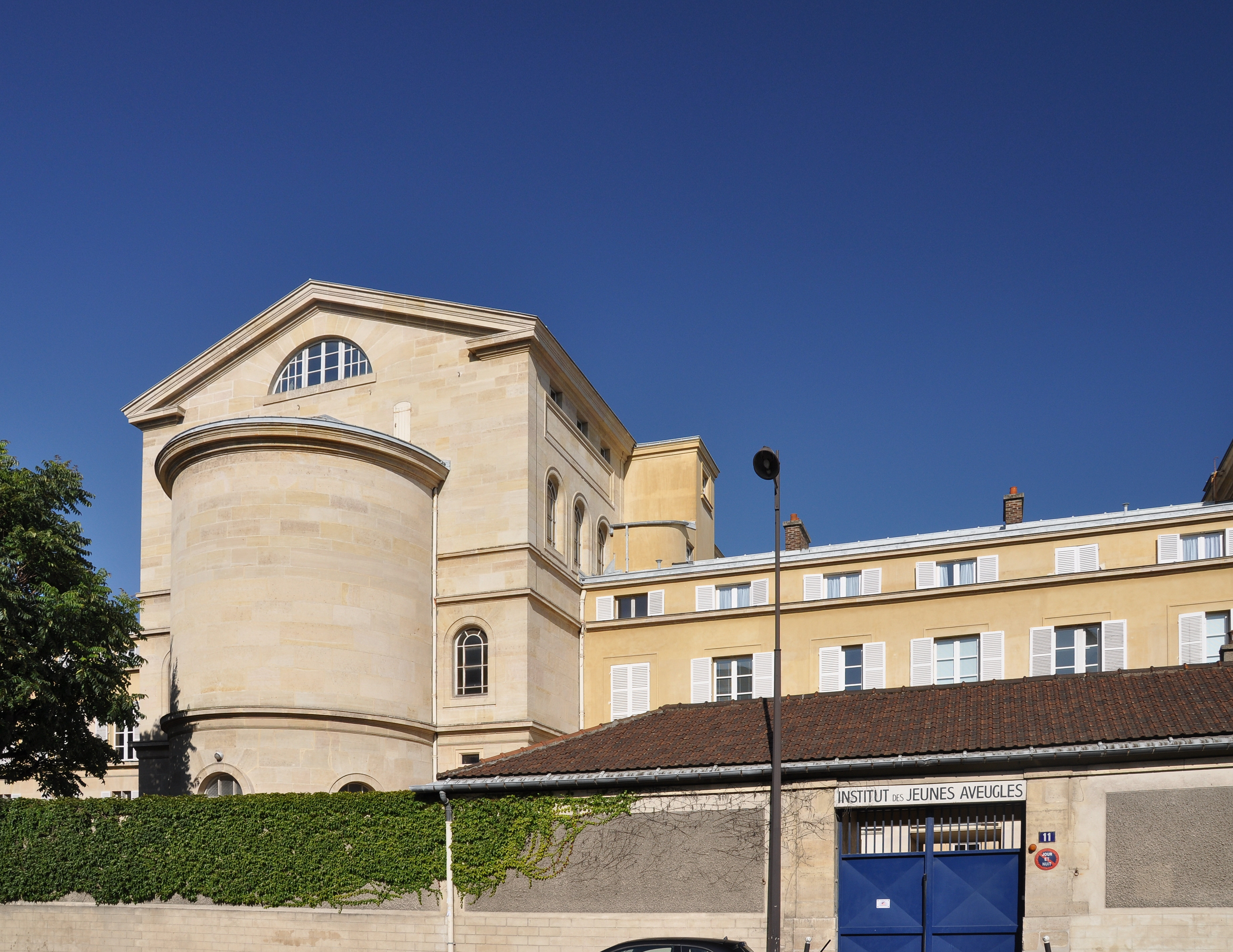 National Institute for Blind Youth located at 57 boulevard des Invalides in the 7th arrondissement of Paris in France, view from Maurice-de-La-Sizeranne street.